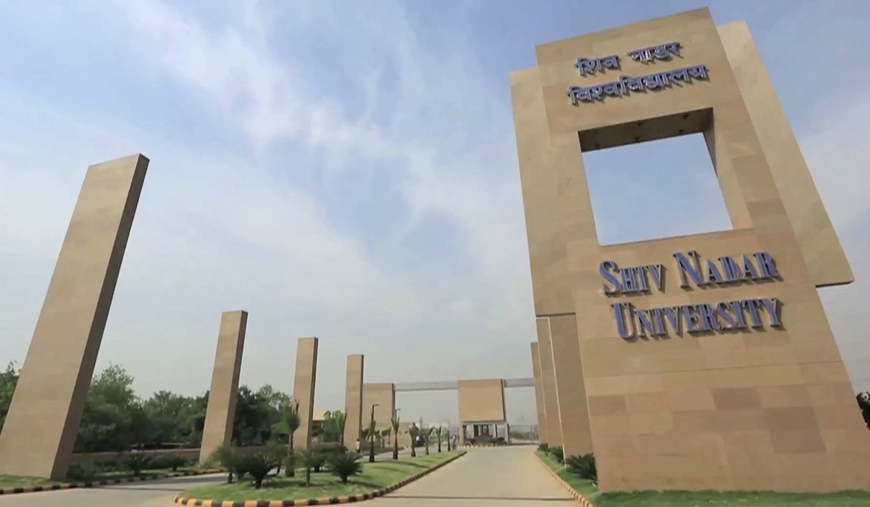 the main gatE OF Shiv nadar univ